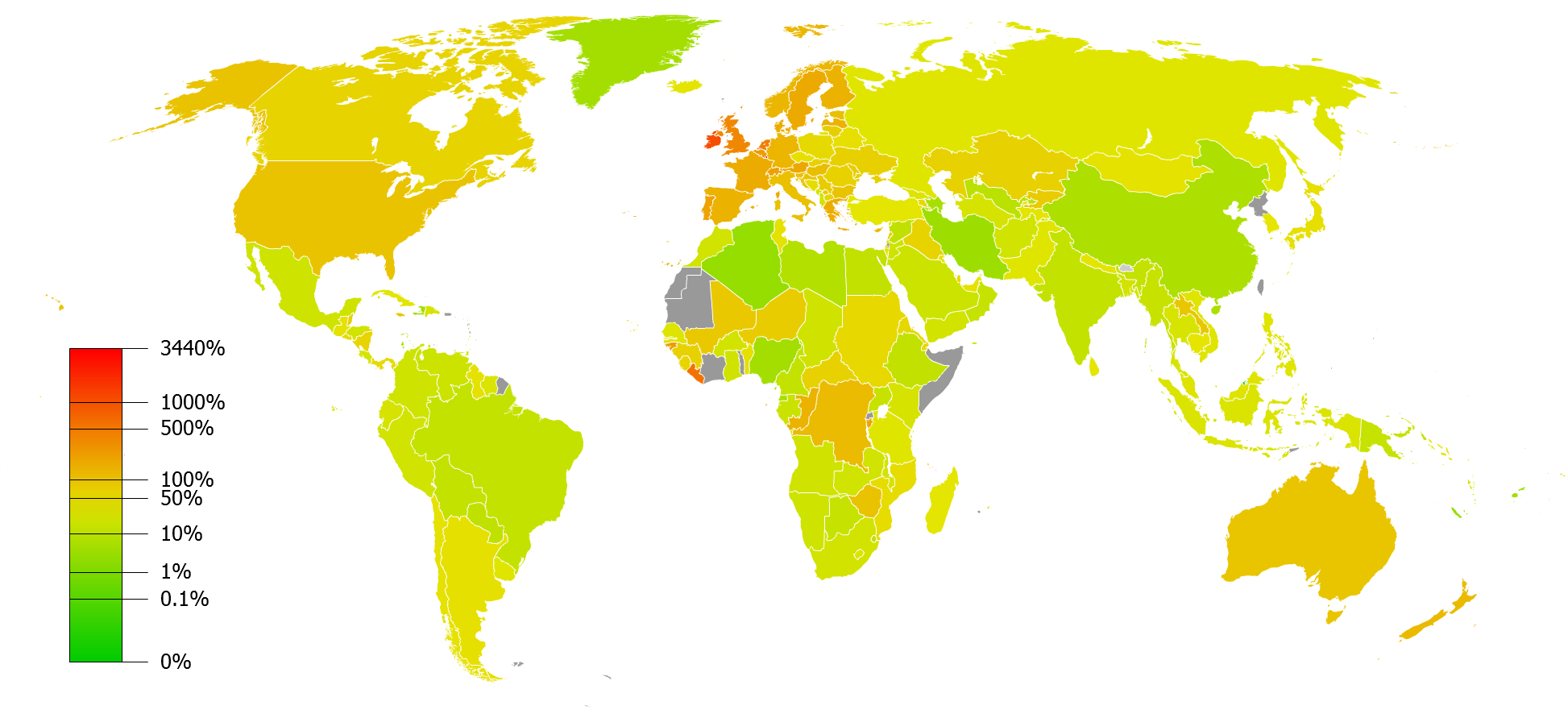 Ratio of external debt to GDP, by country. This map was created with GunnMap GunnMap was created by Arthur Gunn and is available, free, at and Please attribute by linking to